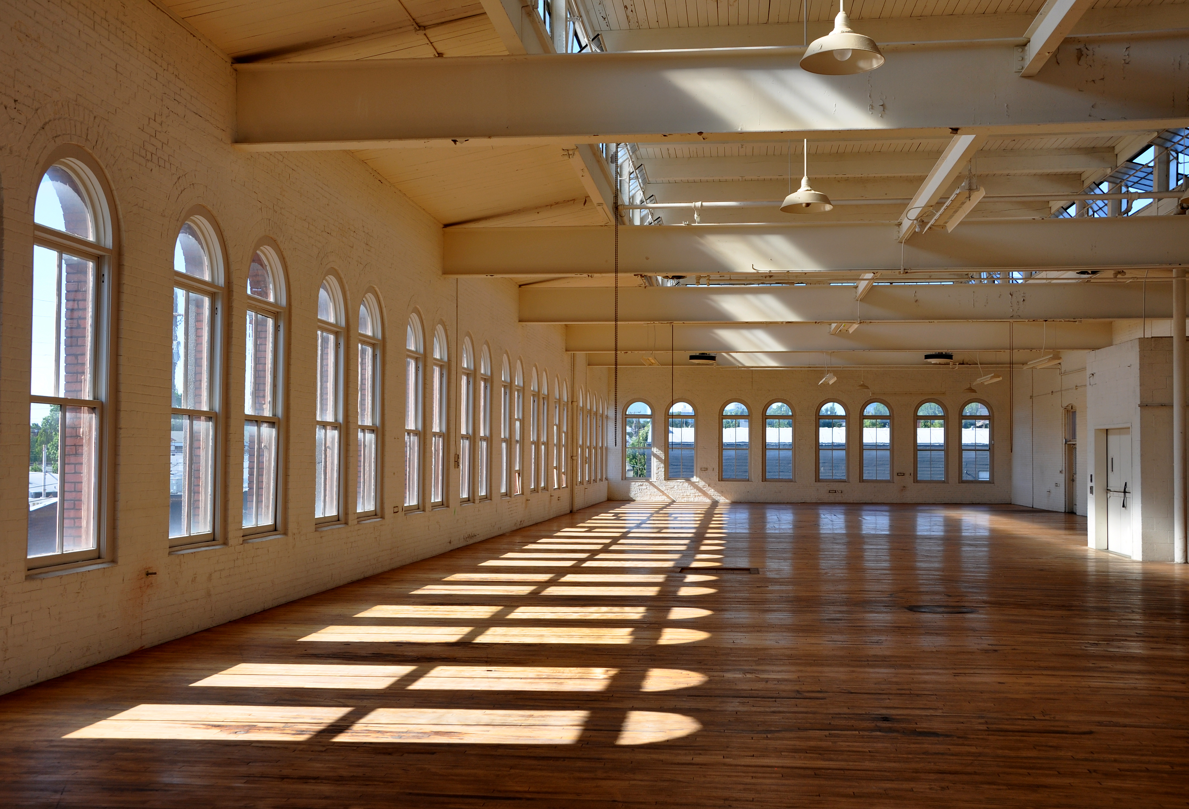 West side of the second floor of the Yale Union Laundry Building in Portland, Oregon, United States. The building, which housed a large commercial laundry for much of the first half of the 20th century, is listed on the National Register of Historic Places.